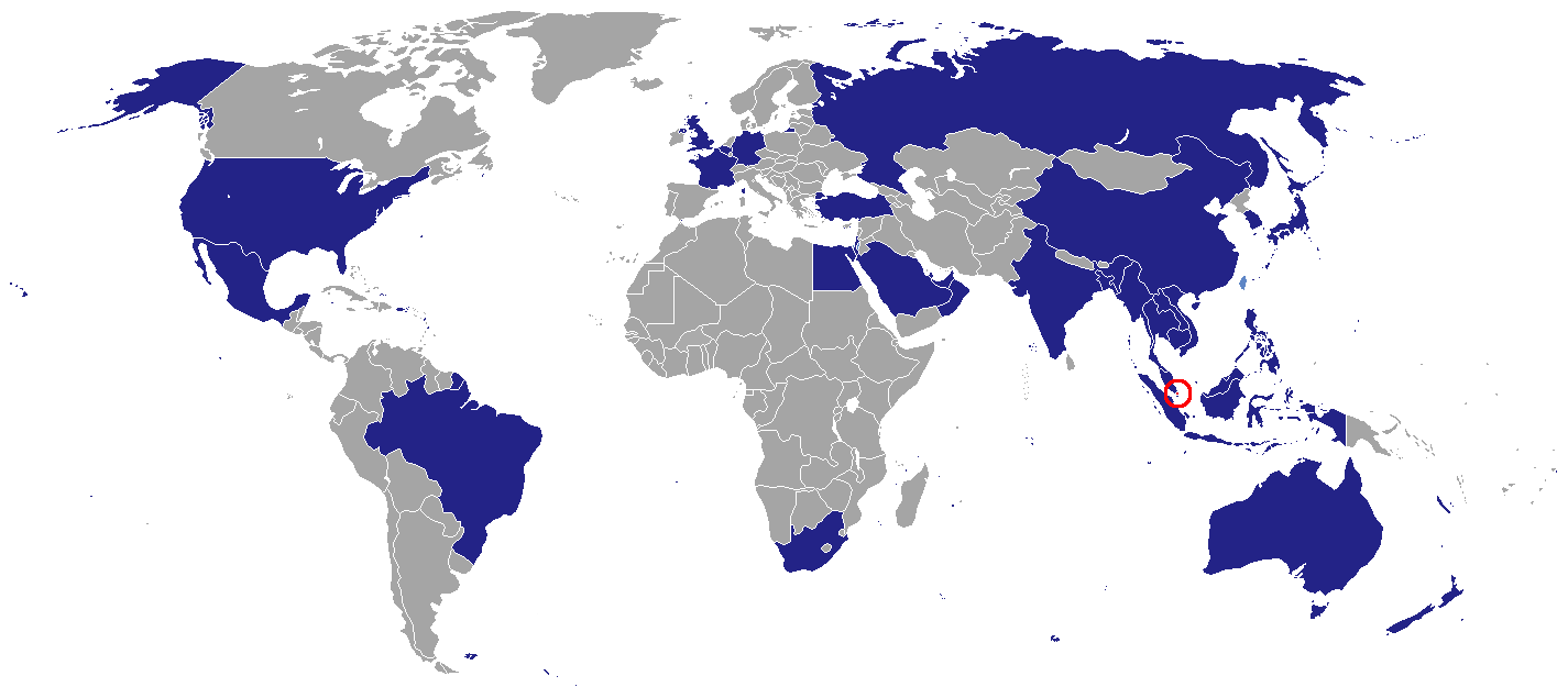 A world map showing countries of the world that Singapore has diplomatic missions in.